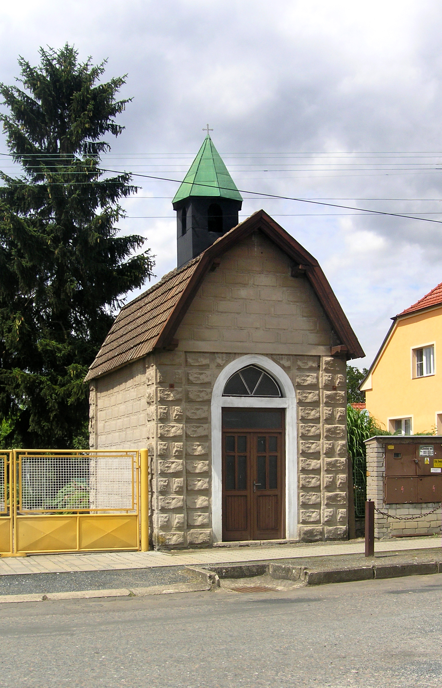 Chapel in Bělušice village, Czech Republic